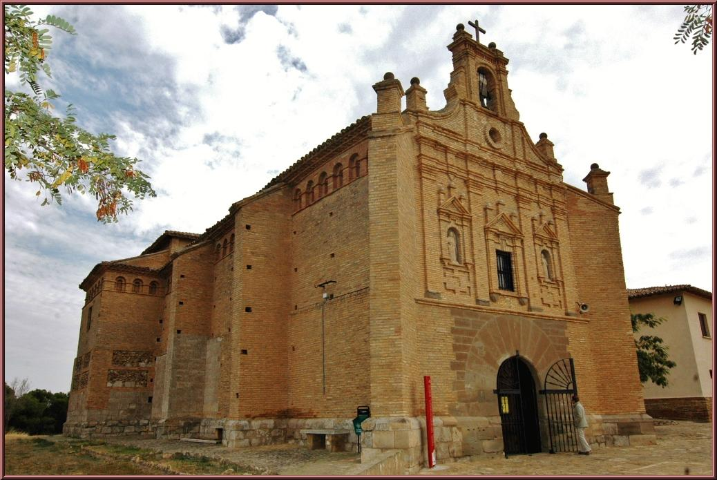 Nuestra Señora del Yugo's ermitage. Navarre, Basque Country.